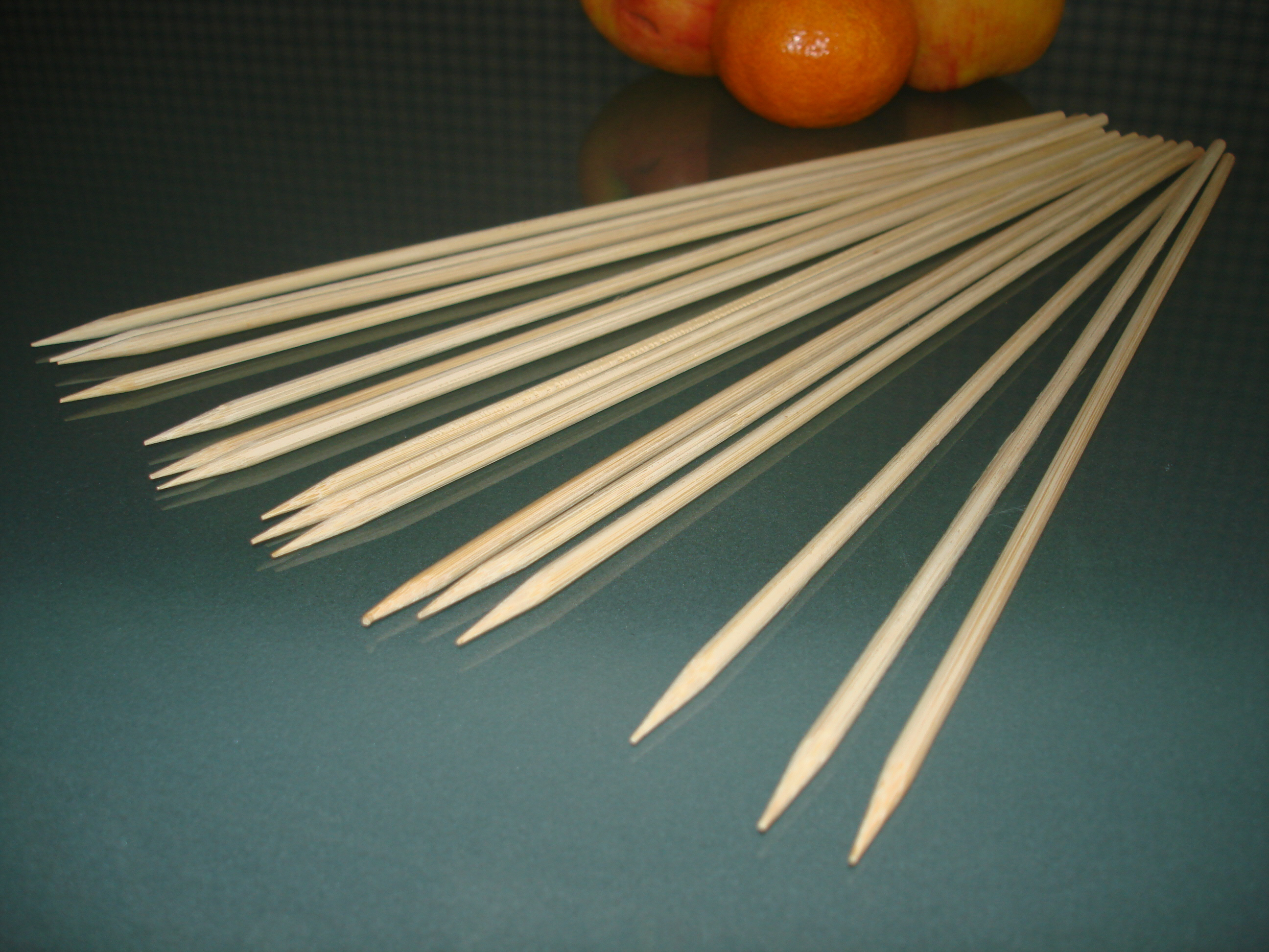 bamboo skewers